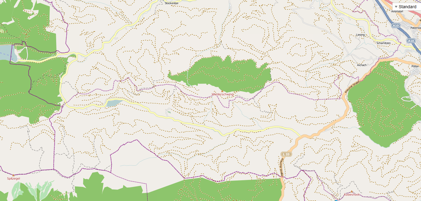 This map may be incomplete, and may contain errors. Don't rely solely on it for navigation.